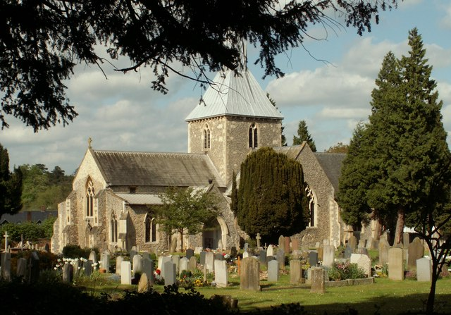 St. Helen: the parish church of Wheathampstead Most of this church dates from the 13th and 14th century but there is evidence of a much earlier building. The whole church was restored in 1865-6.